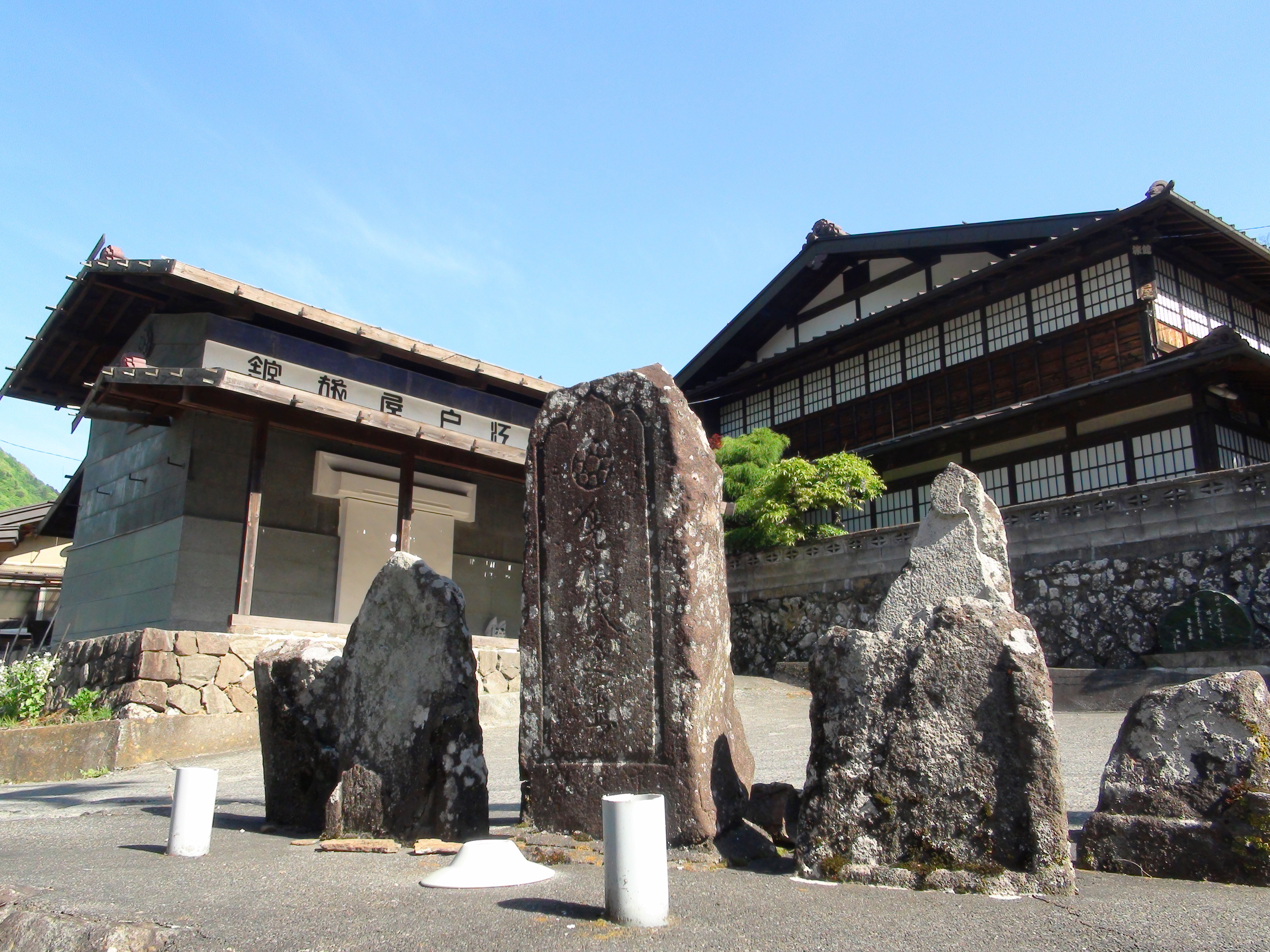 Old accommodations Edoya in Akasawa